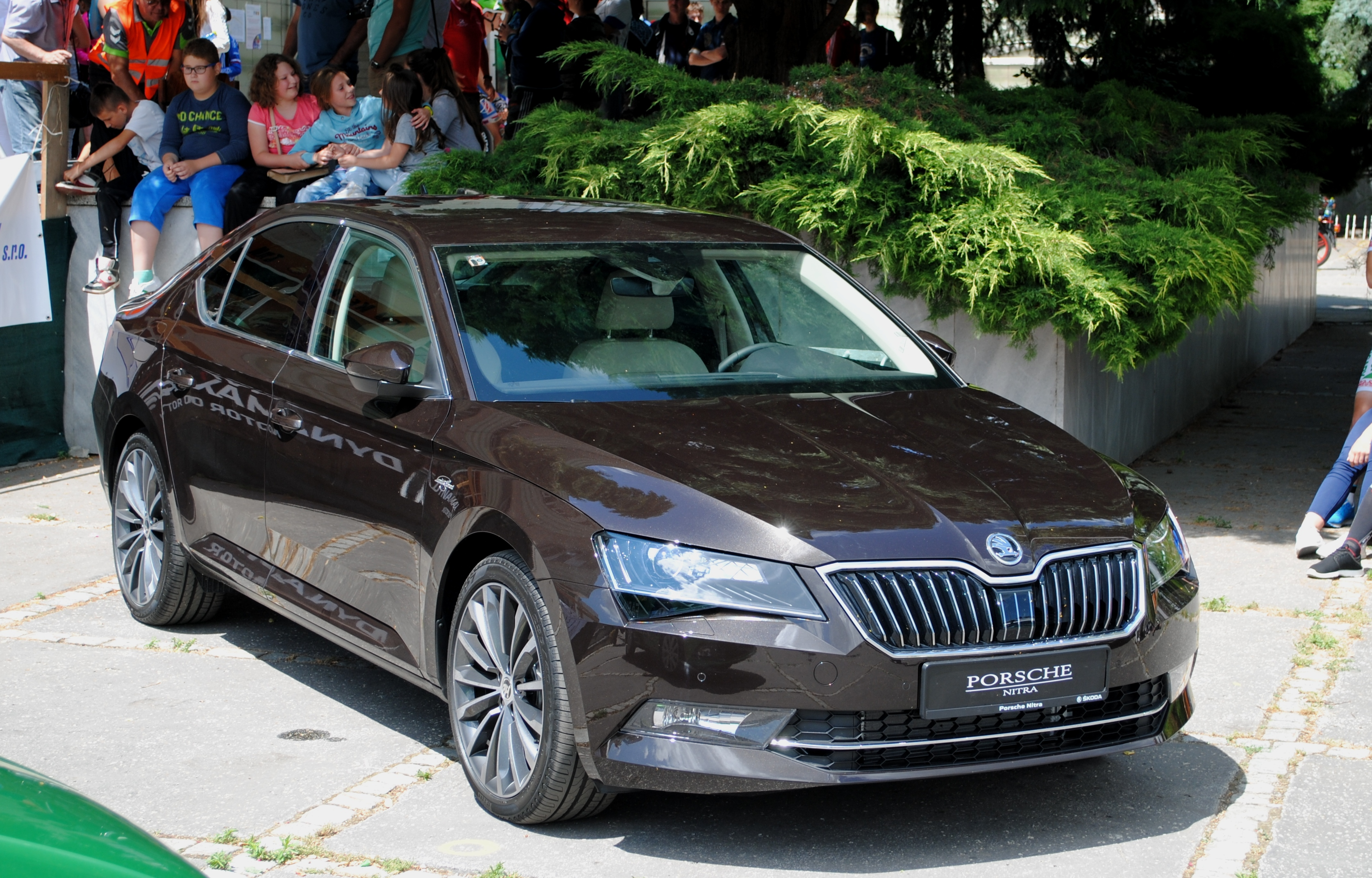 Skoda Superb B8 front view